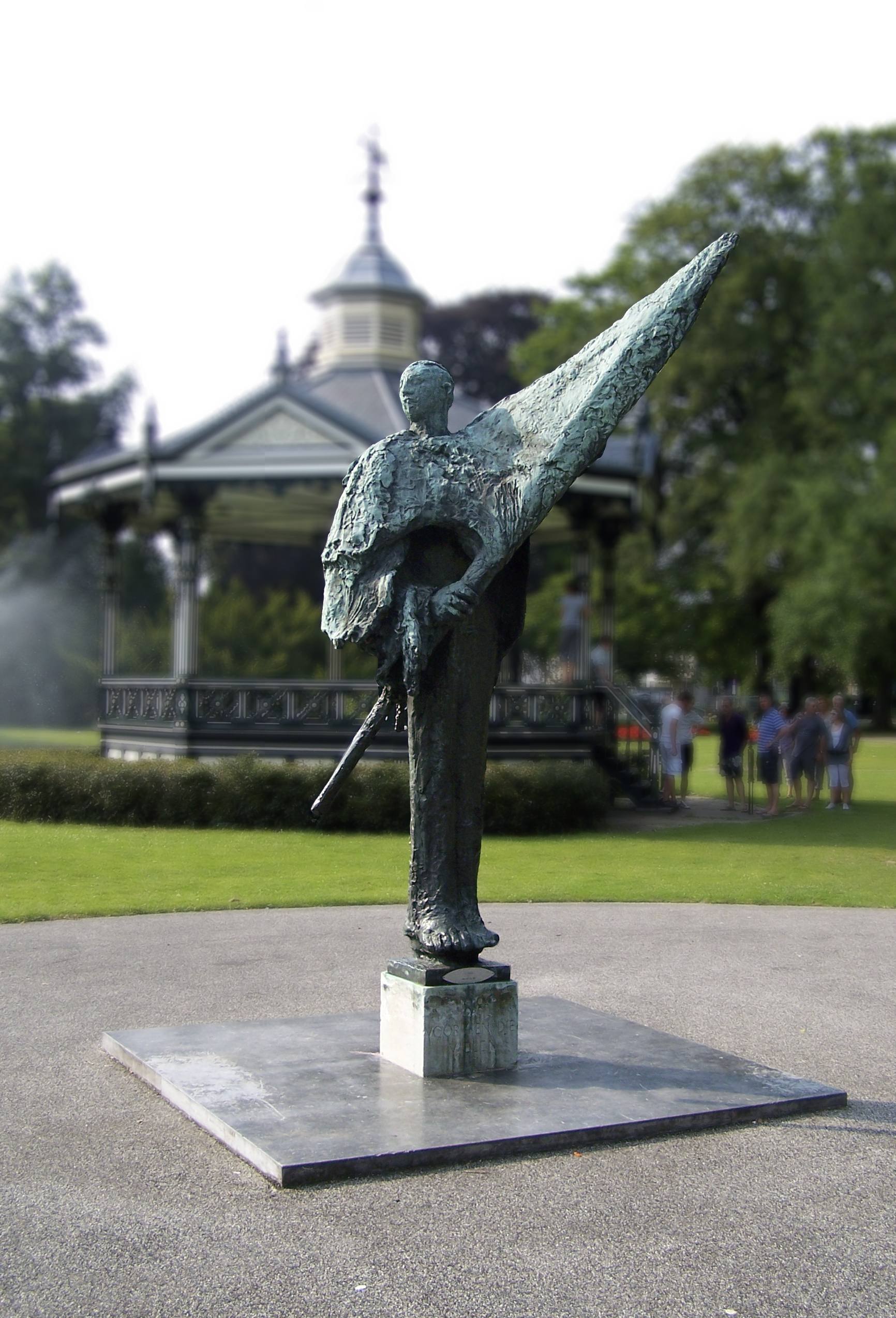 World War II memorial "Centraal Monument" aka "Man met vlag" (Man with flag) by Cor Hund in 1960. Placed at the Oranjepark in Apeldoorn.